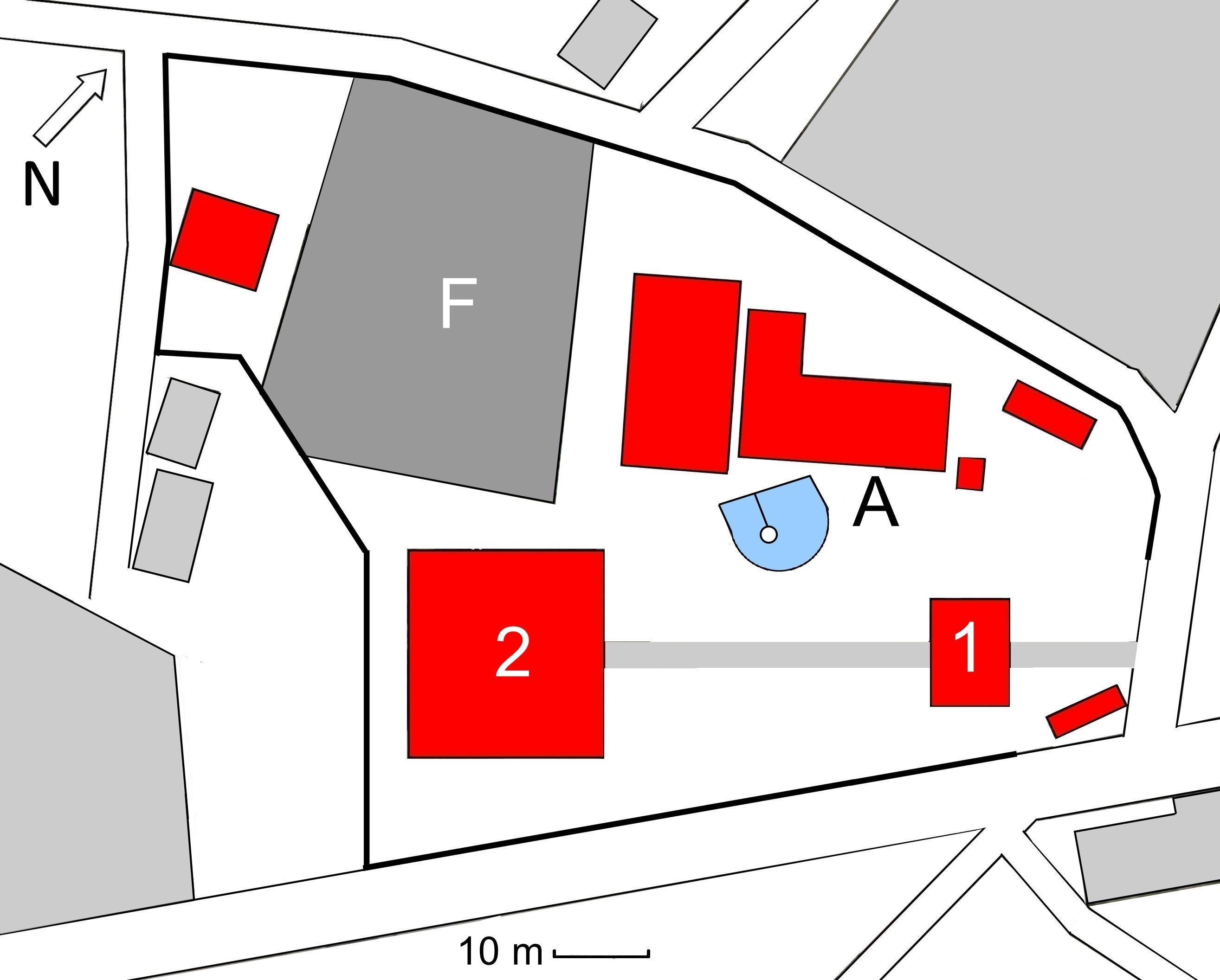 Layout of Satake-ji, temple at Hitachi-Ōta, Japan